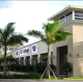 CBT College - West Kendall Campus (College of Business and Technology)